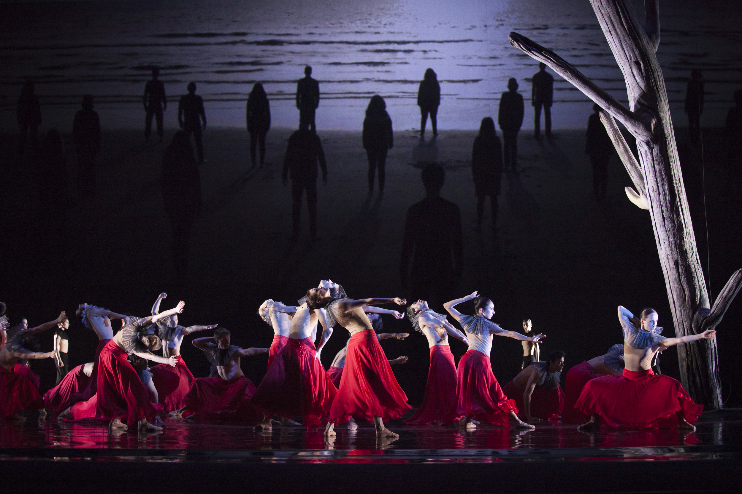 "The Tempest" ballet by Krzysztof Pastor, Polish National Ballet, video projections by Shirin Neshat, set design by Jean Kalman